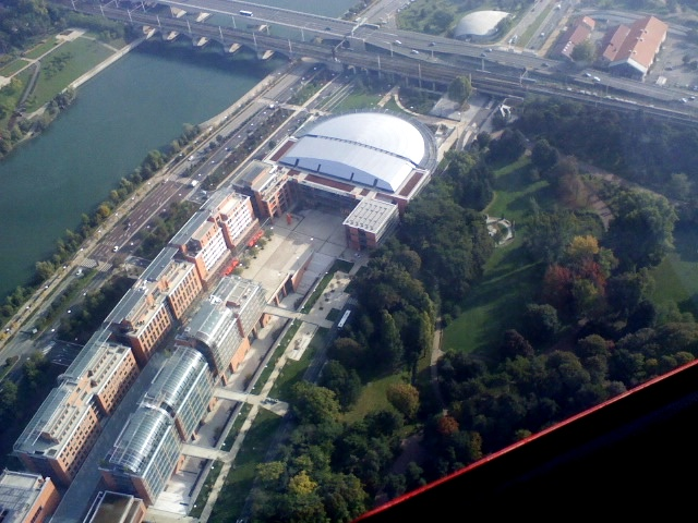 View of the Salle 3000 in Lyon from an helicopter